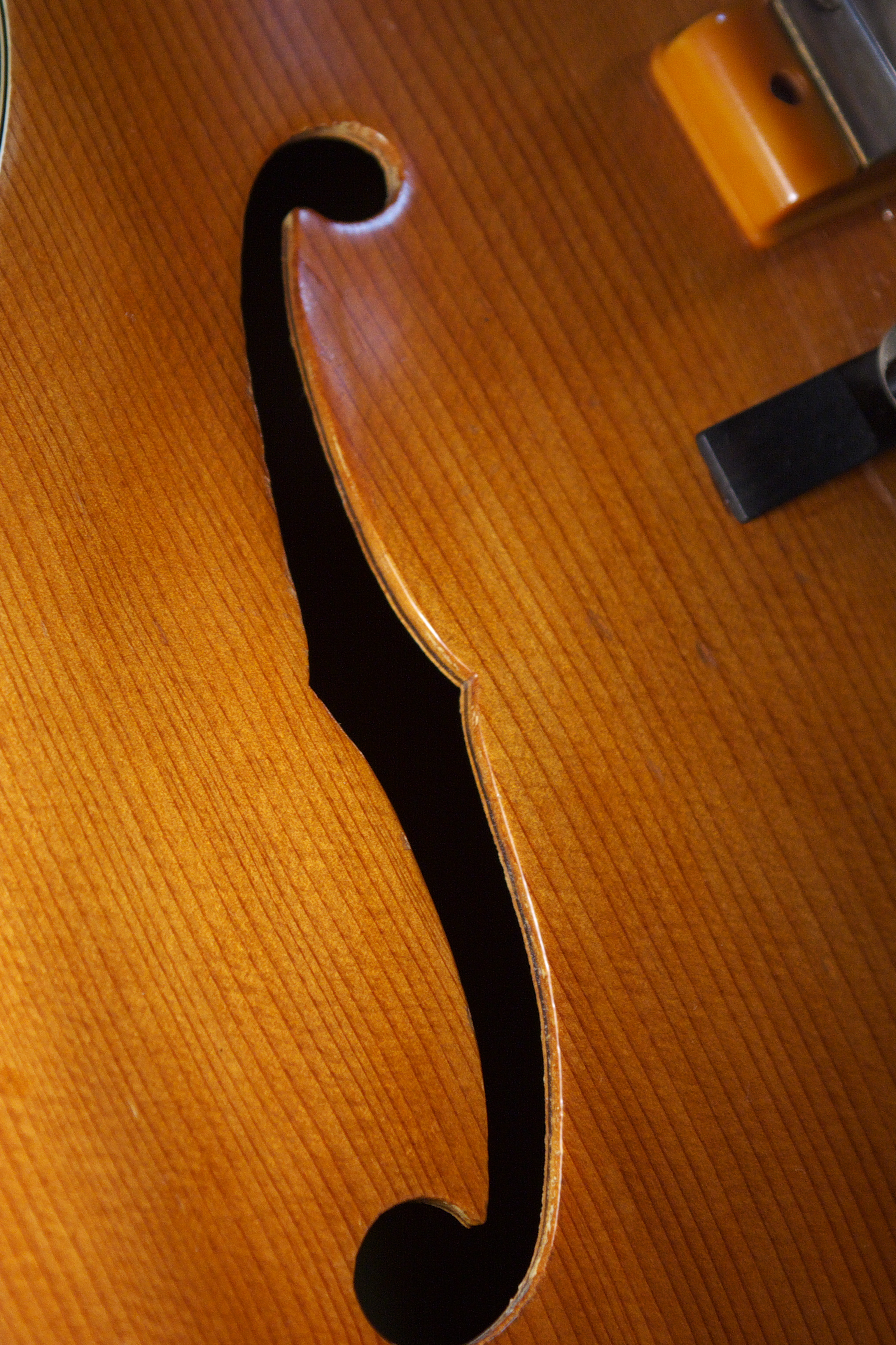 laminate top